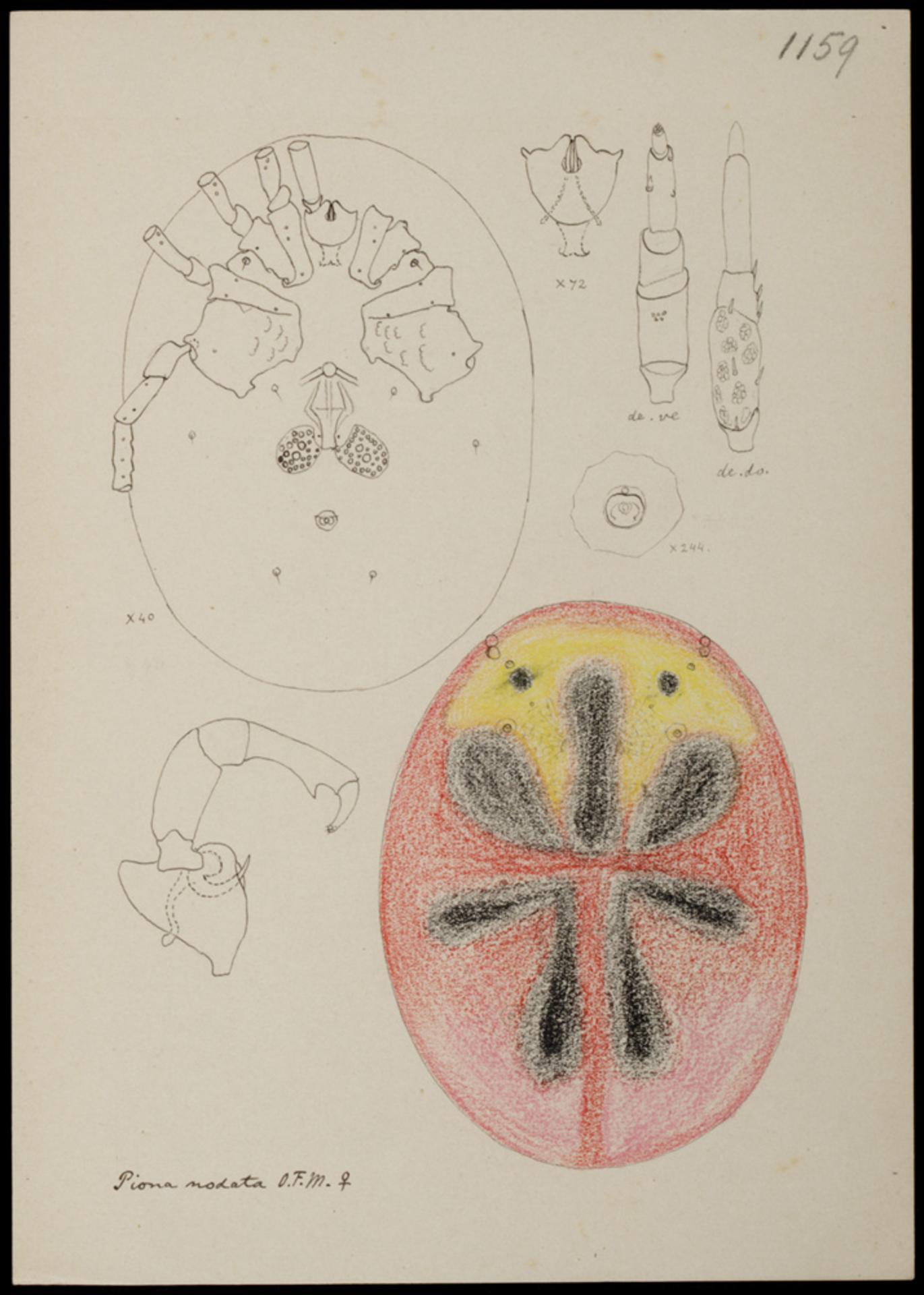 Piona nodata O.F.M. (O.F. Müller), according to Oudemans on the drawing. See Notes.